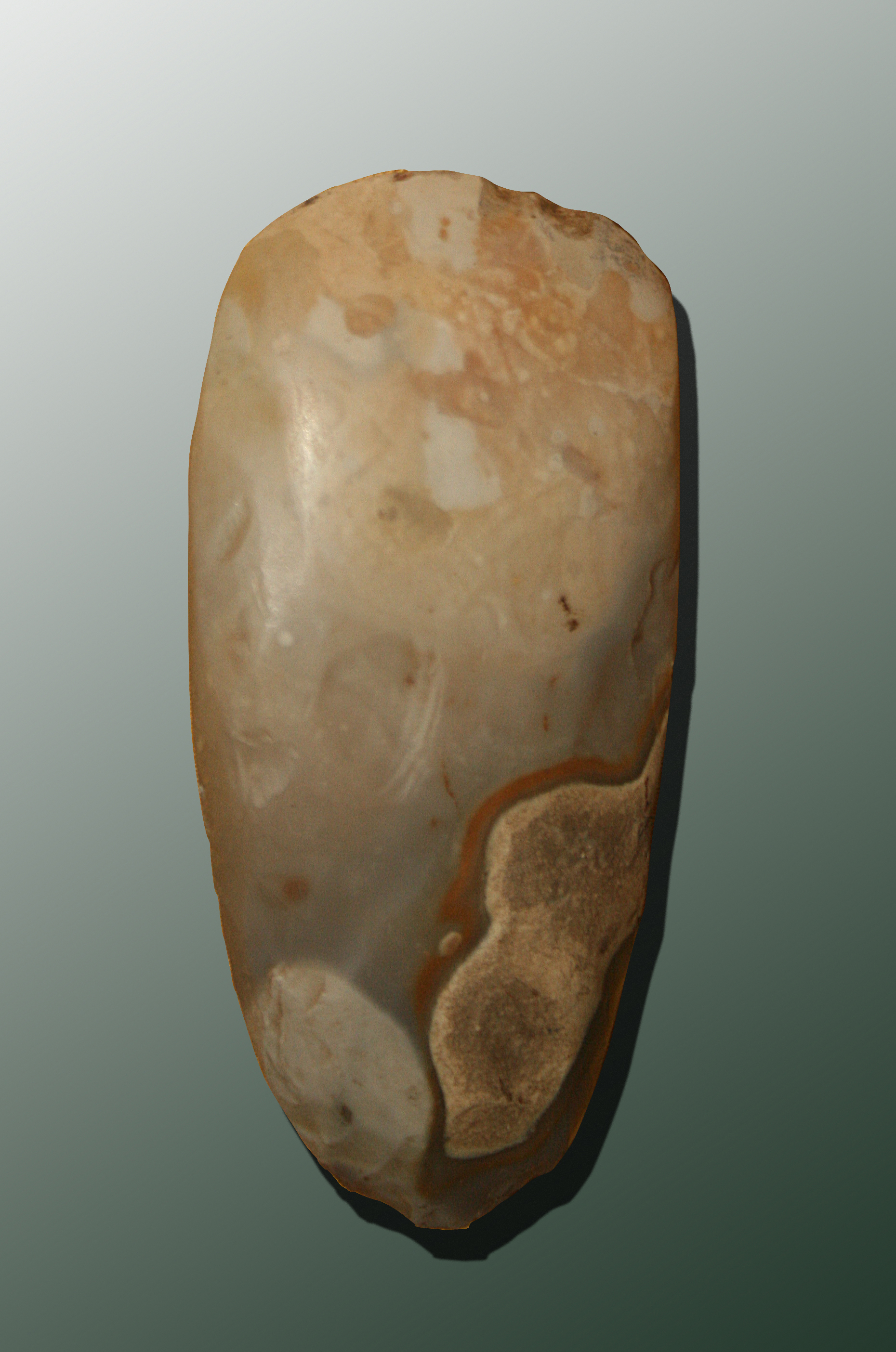 flint polished ax Stage : Neolithic (Between -6000 and 2300 Before the Current Era) Locality : Orléans, Loiret, France